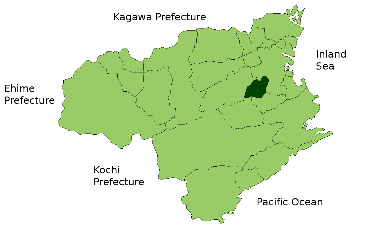 Map of Tokushima Prefecture highlighting Sanagochi village. Borders of map as of October, 2006. (blank map used from [1]) See also Image:TokushimaMapCurrent.png